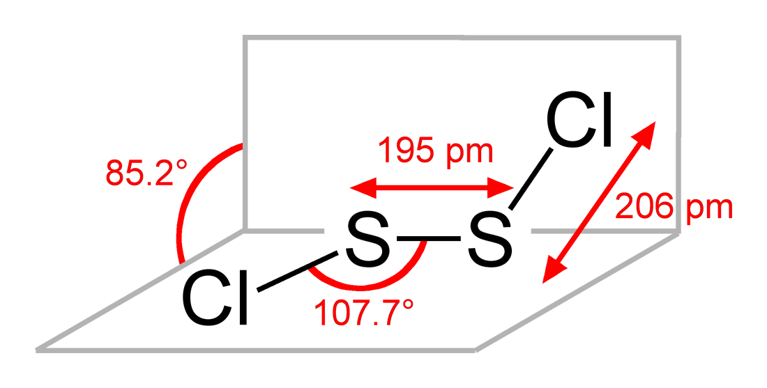 Structure, bonding and dimensions of the disulfur dichloride molecule, S2Cl2